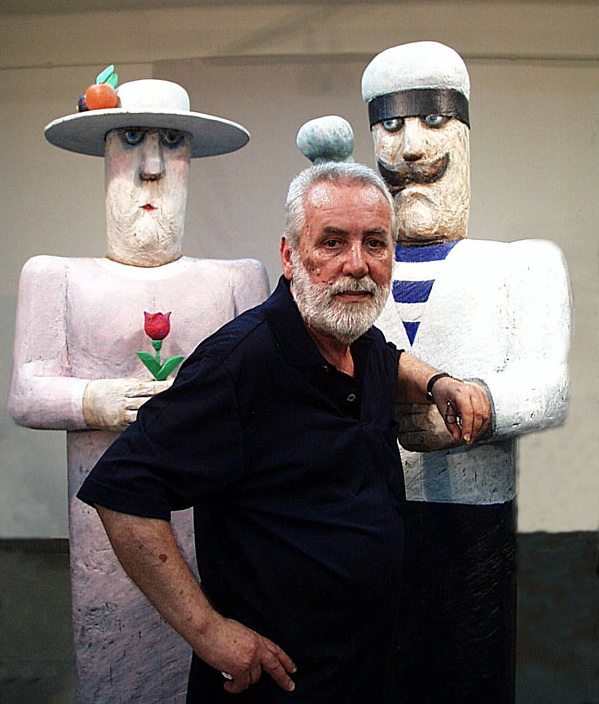 vasko Lipovac with his sculpture "Sunday, year 1938."